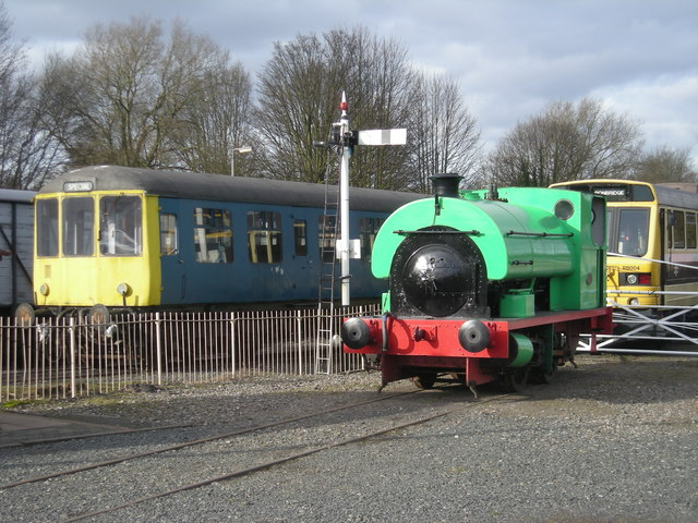 Stock in the yard of the Telford Steam Railway